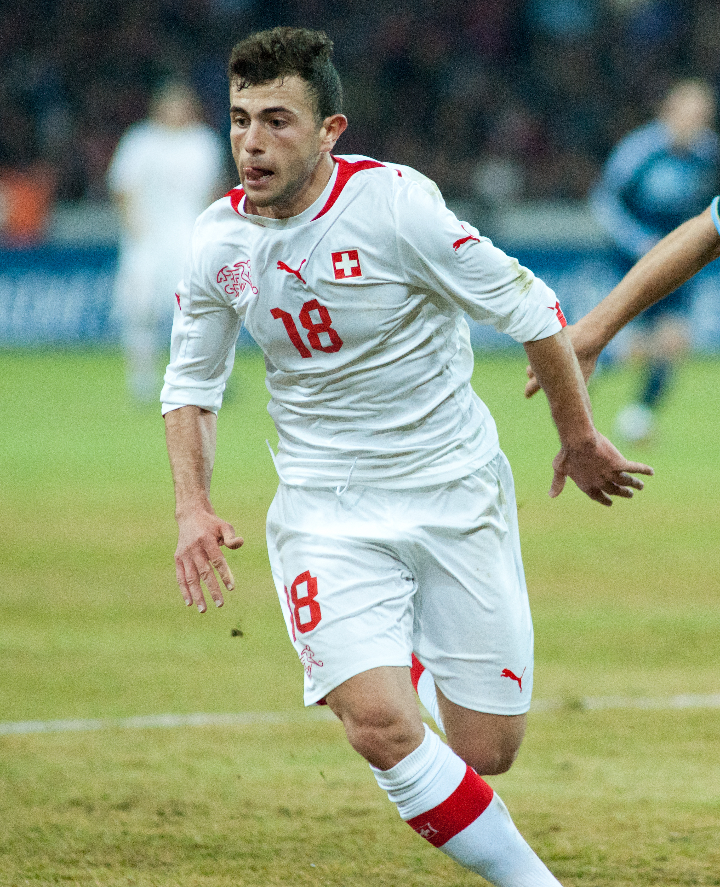 The making of this document was supported by Wikimedia CH. (Submit your project!) For all the files concerned, please see the category Supported by Wikimedia CH. Switzerland vs. Argentina, 29th February 2012